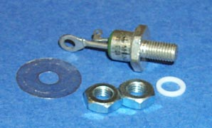 Rectifier, 2N1849. Silicon Controlled Rectifier (SCR)